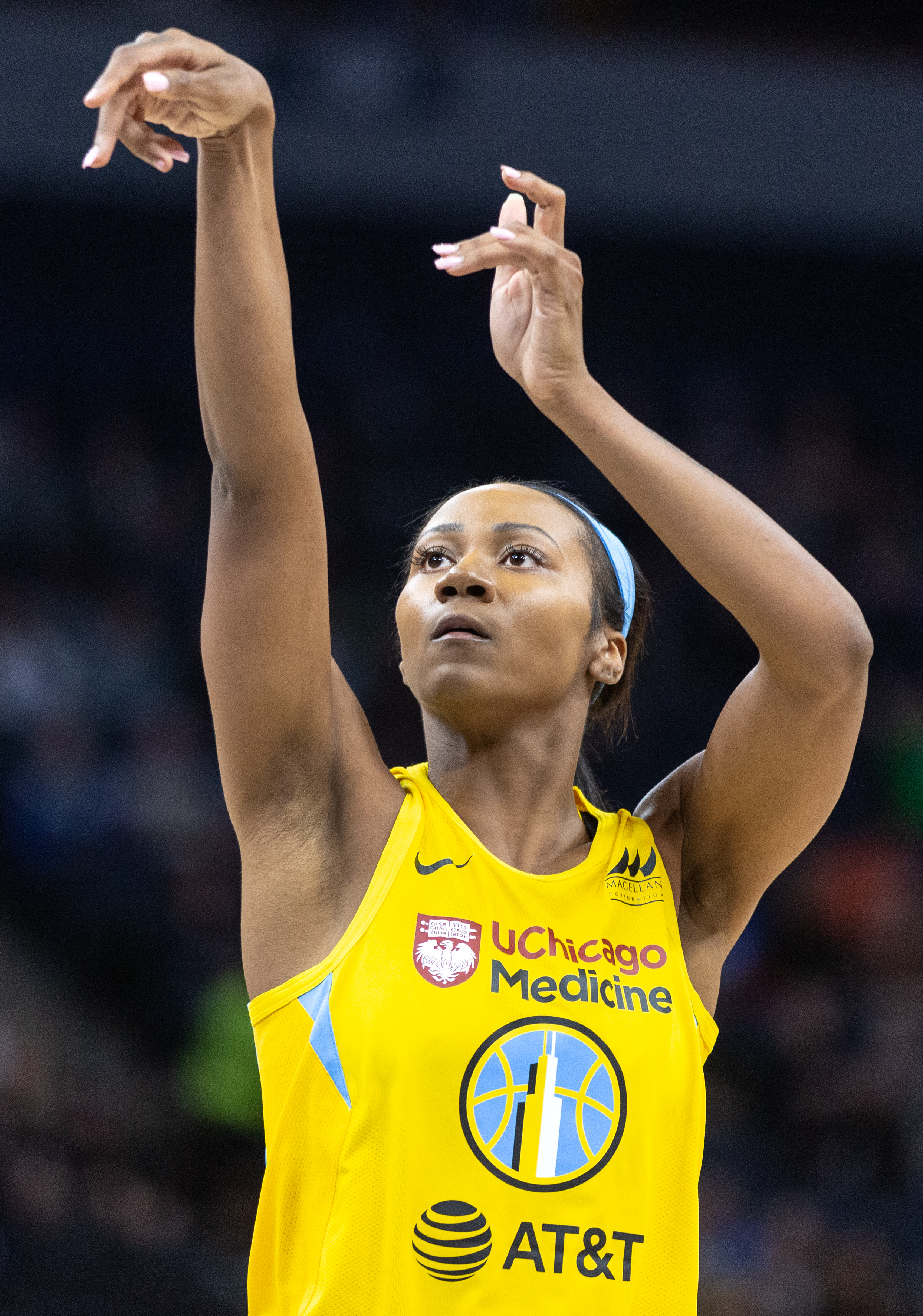 Chicago Sky player Chloe Jackson shooting a foul shot